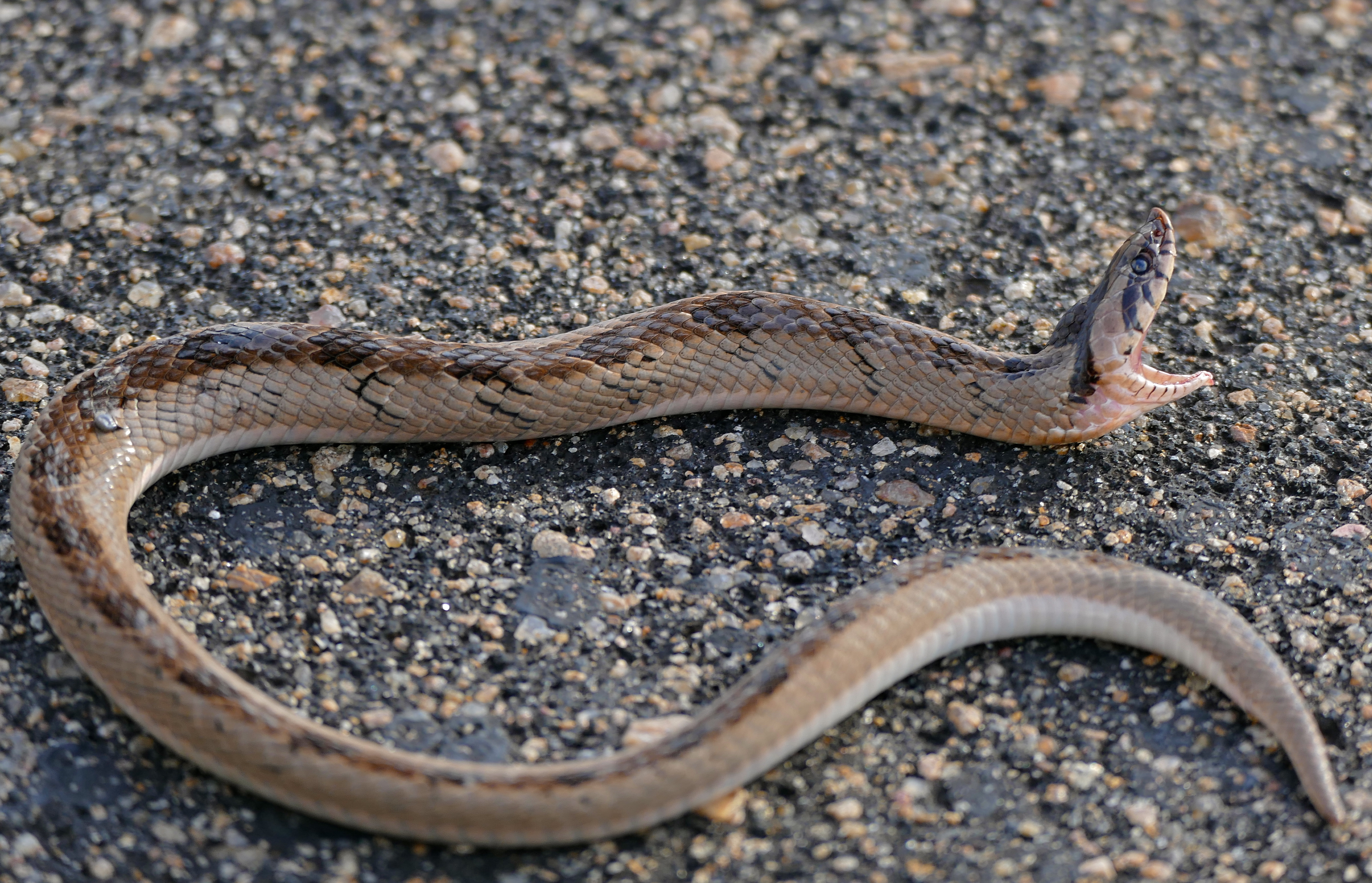 H10 Road North of Lower Sabie, Kruger NP, SOUTH AFRICA